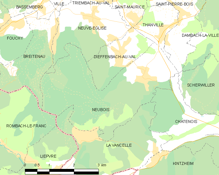 Map of French municipality